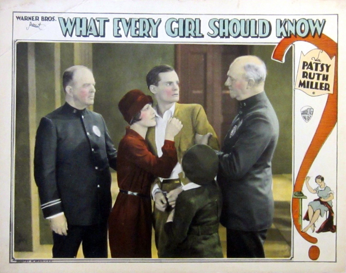 Lobby card for the American romantic drama film What Every Girl Should Know (1927).